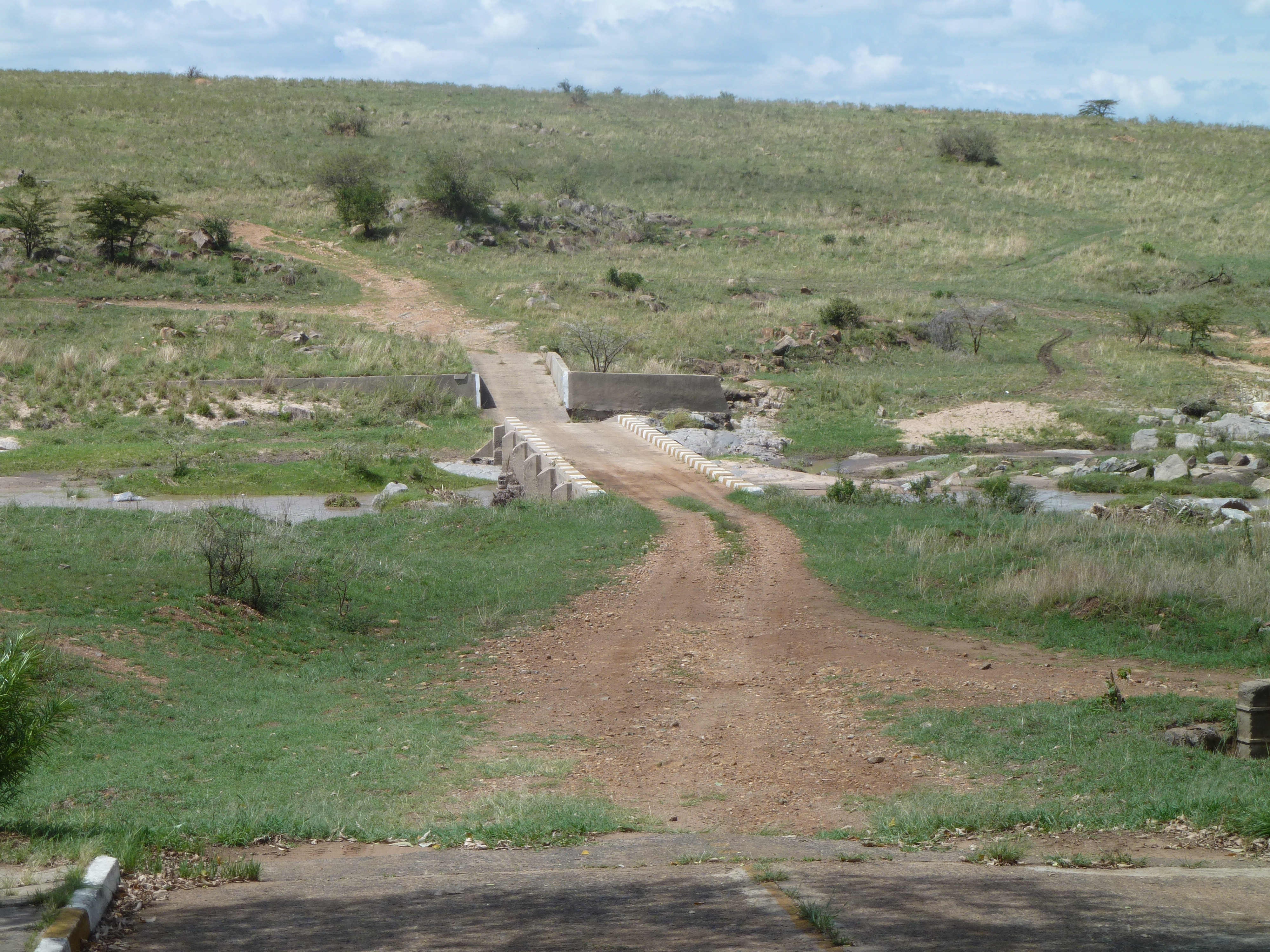 Border Crossing Kenya-Tanzania near Sand River Gate, Masai Mara